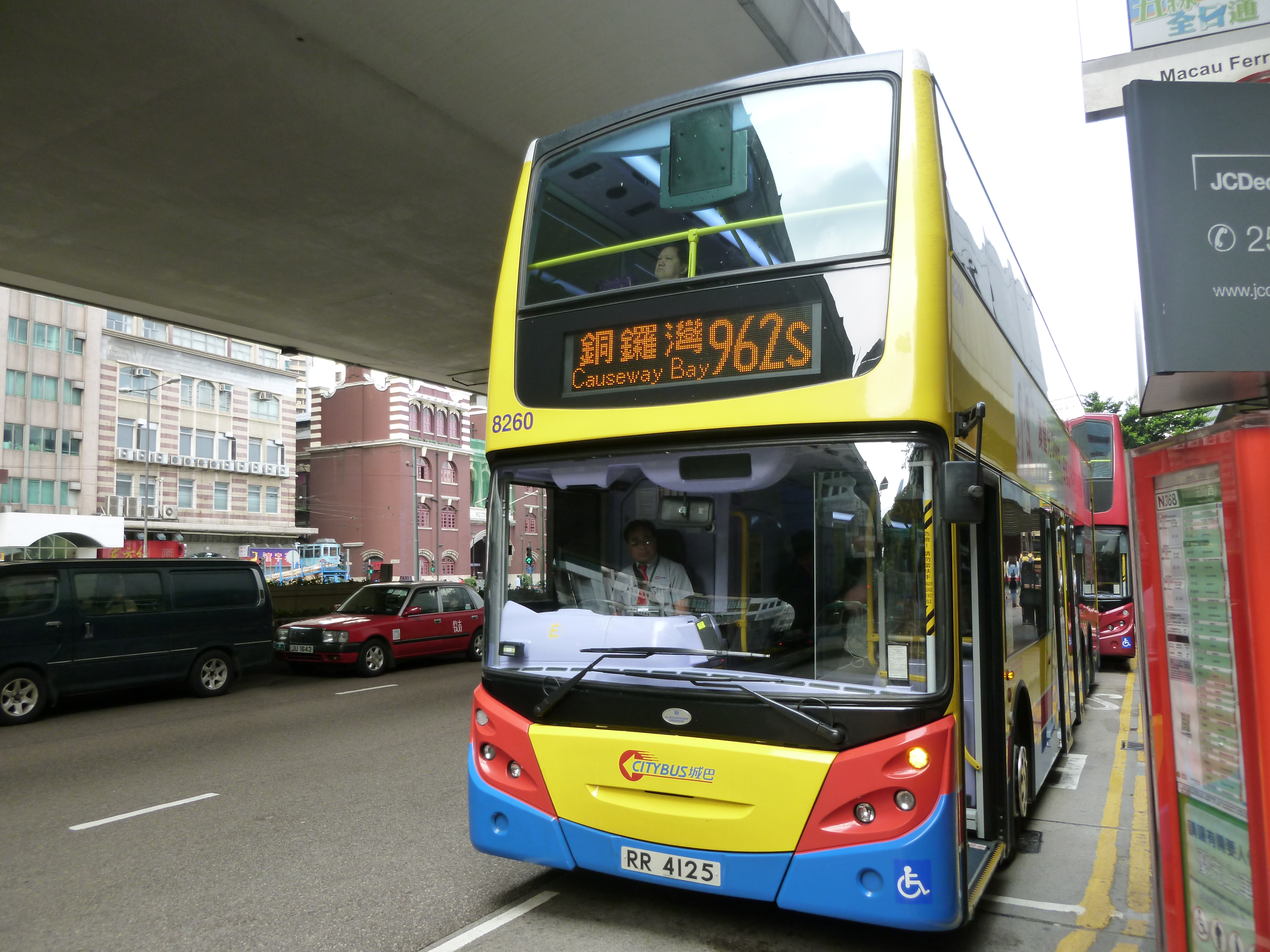 Citybus Route 962S (Connaught Road Central)中文（香港）: 城巴962S線 (干諾道中)